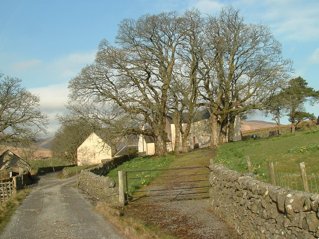 Garryhorn Farm Garryhorn Farm was used during the "Killing Times" by Robert Grierson of Lag and his troops for their forays against the Covenanters. A remote plaque on a boulder on Meaul marks the spot where Grierson's dragoons executed John Dempster.